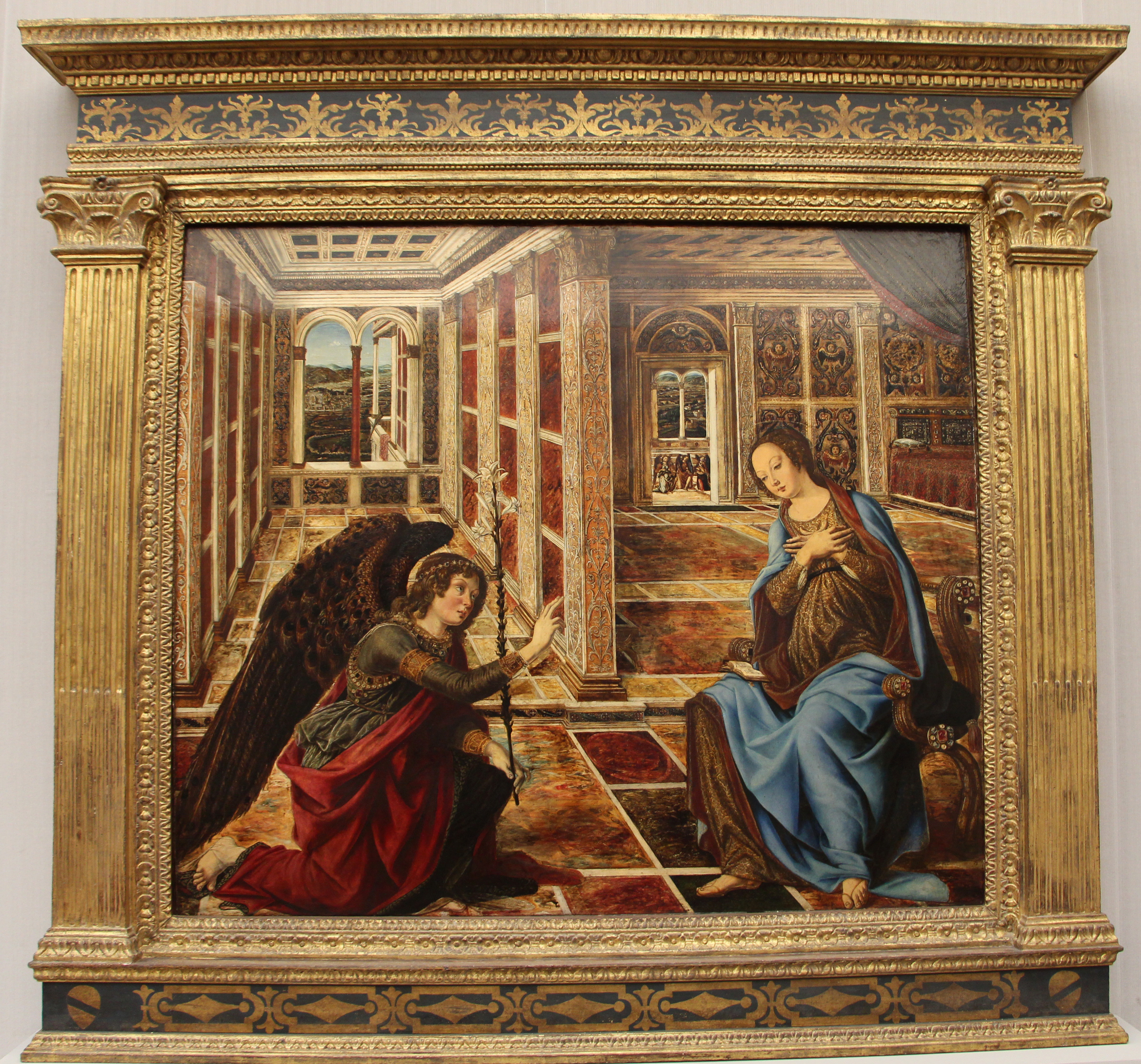 Italian Renaissance paintings in the Gemäldegalerie, Berlin